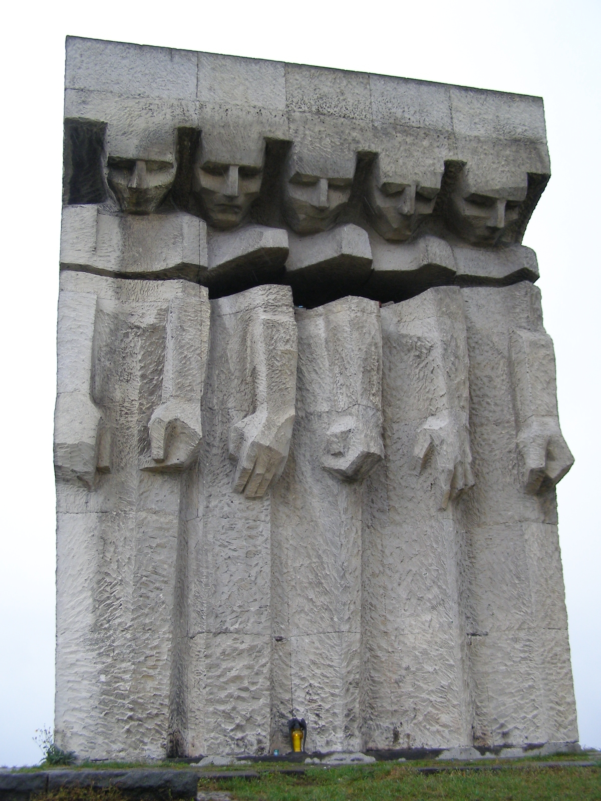 Kraków - Monument to the Victims of Fascism